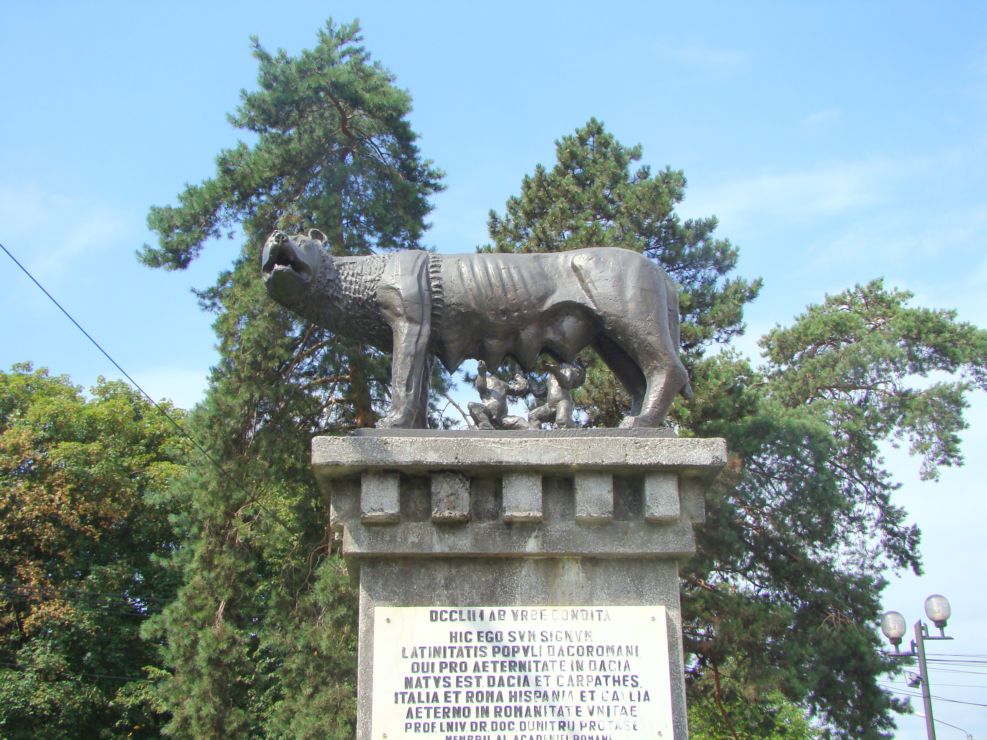 Statue, replica of Lupa Capitolina, located in Năsăud